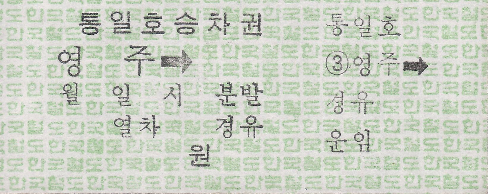 Tongil Ho old ticket, during Korean National Railroad. It has no date or any details other than basic template but it's genuine. ID 00762, issued at Yeongju Station